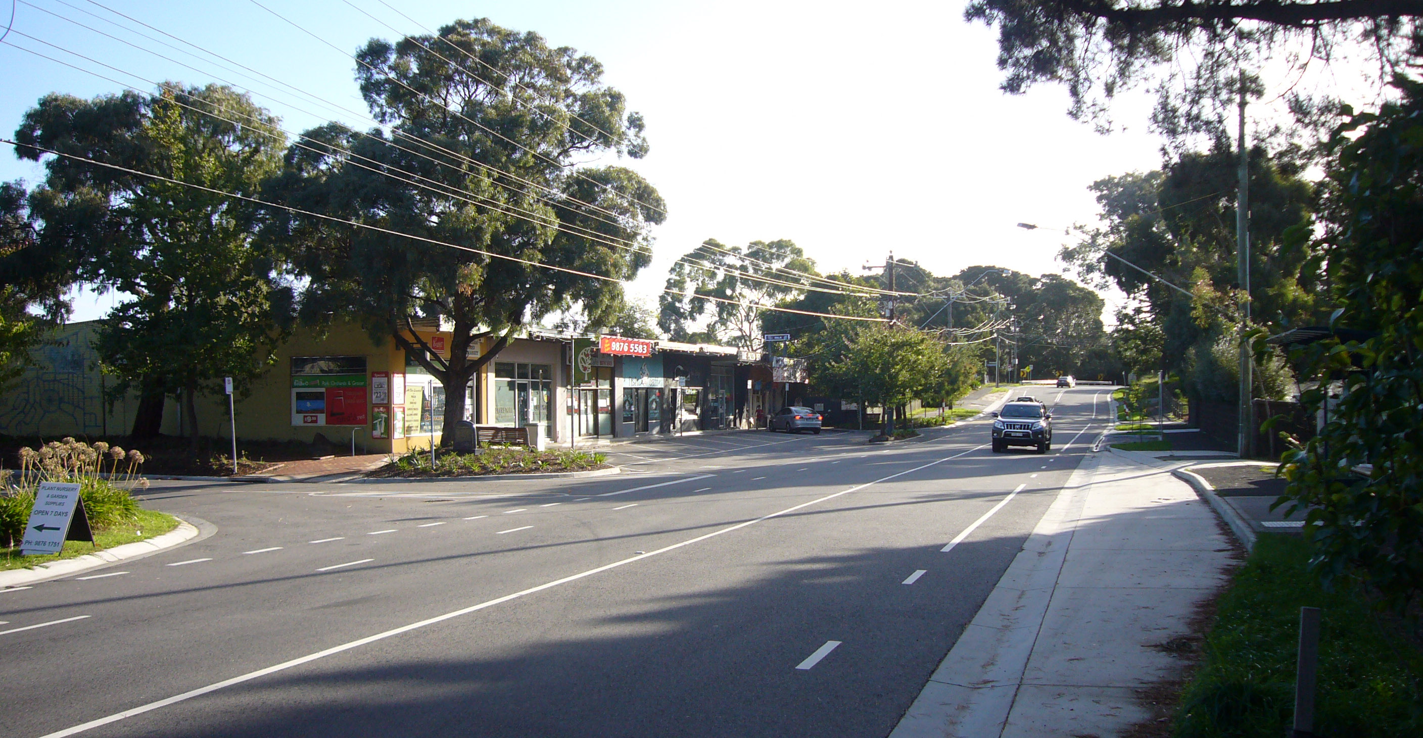 Park Orchards, Melbourne, Victoria, Australia, 2011. Showing the shops on Park Road.